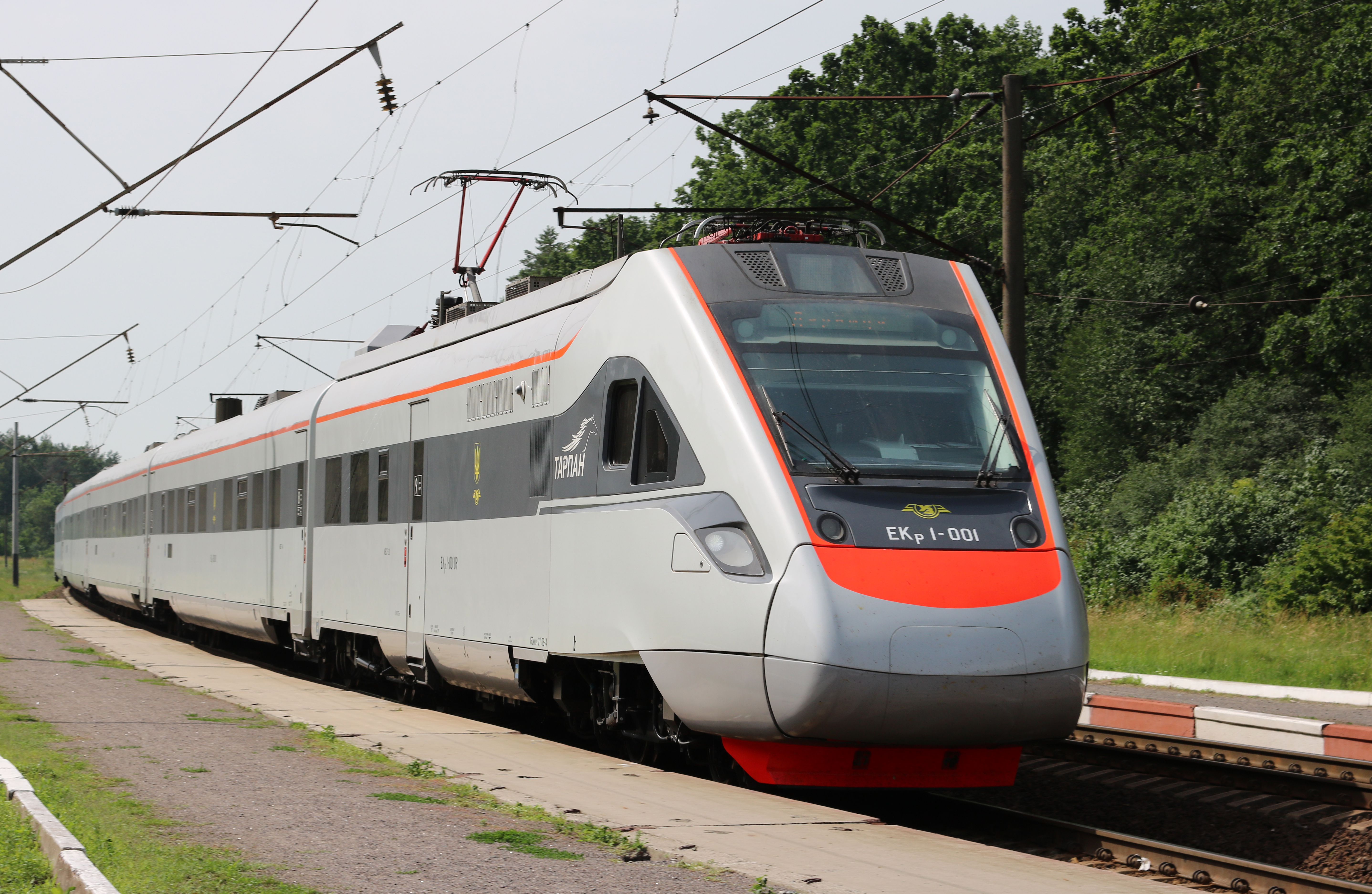 EKr1-001 Tarpan, a cross-regional high-speed train passes through Desenka railway halt in Vinnitsa region. Train manufactured 03.2012.